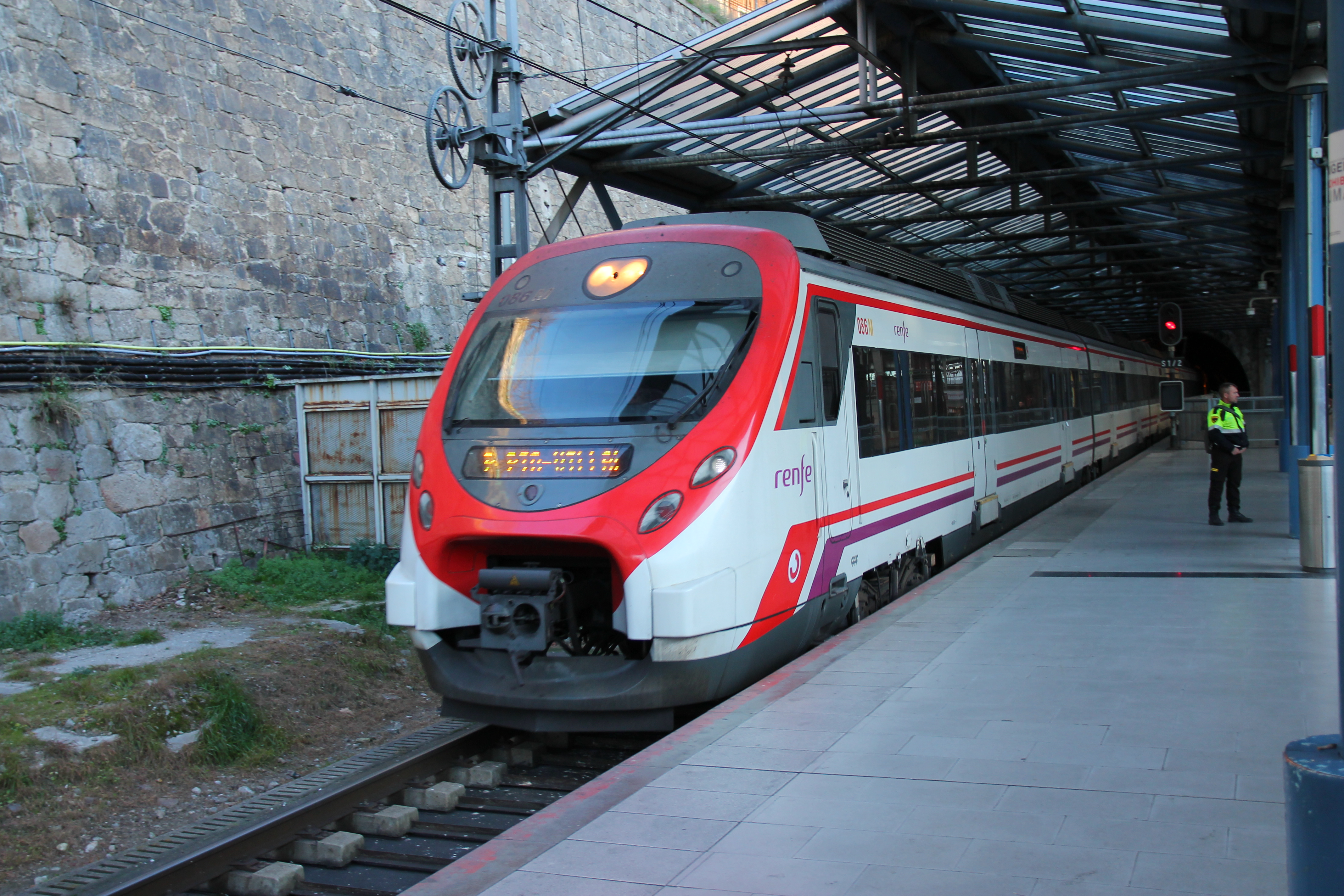 Suburban train at Príncipe Pío station, Madrid